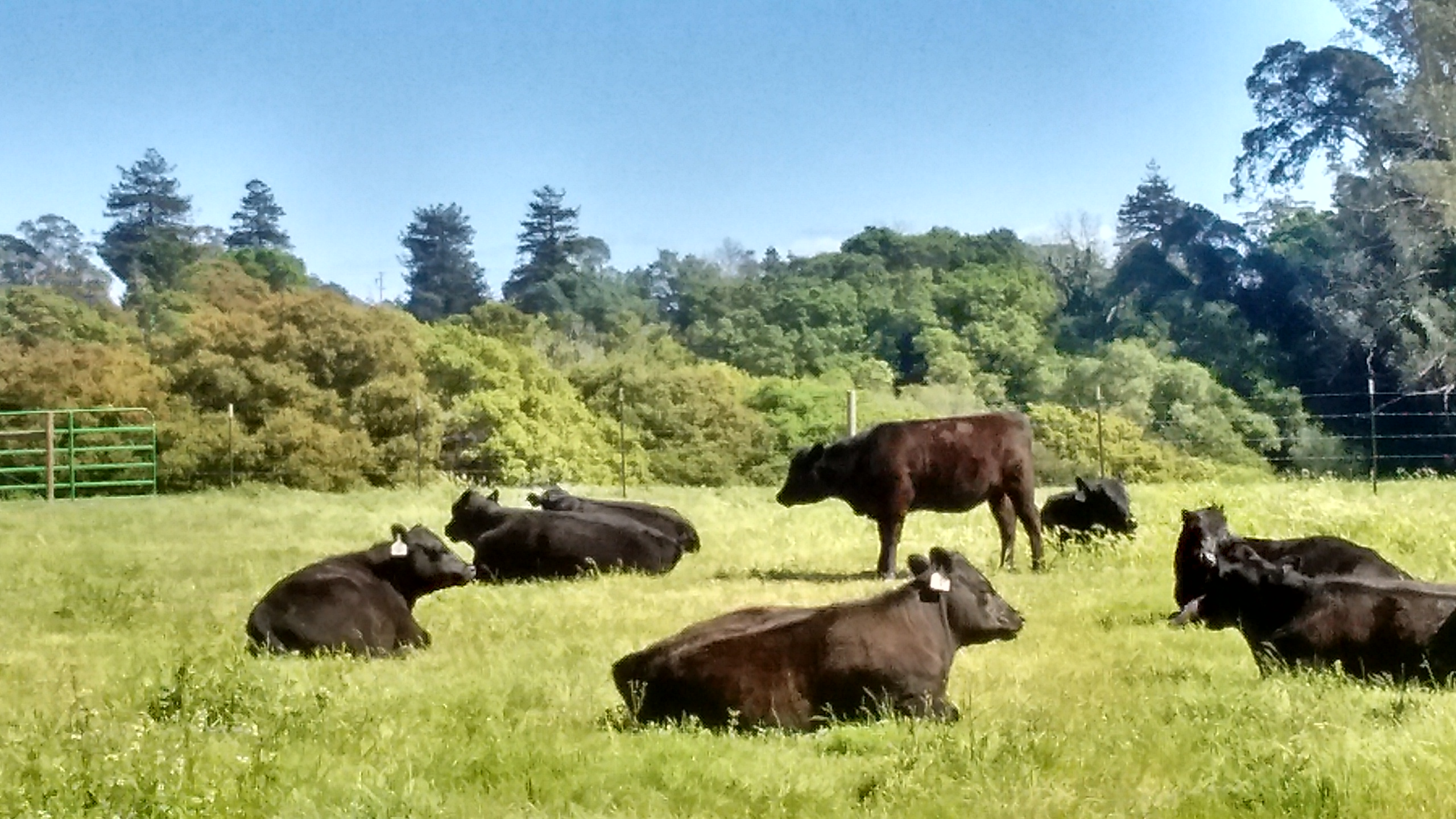 March 23, 2017 - Arana Gulch Black Angus Cows